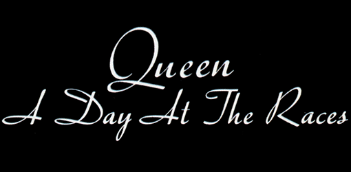 The font for the album "A Day at the Races" by british rockgroup Queen.